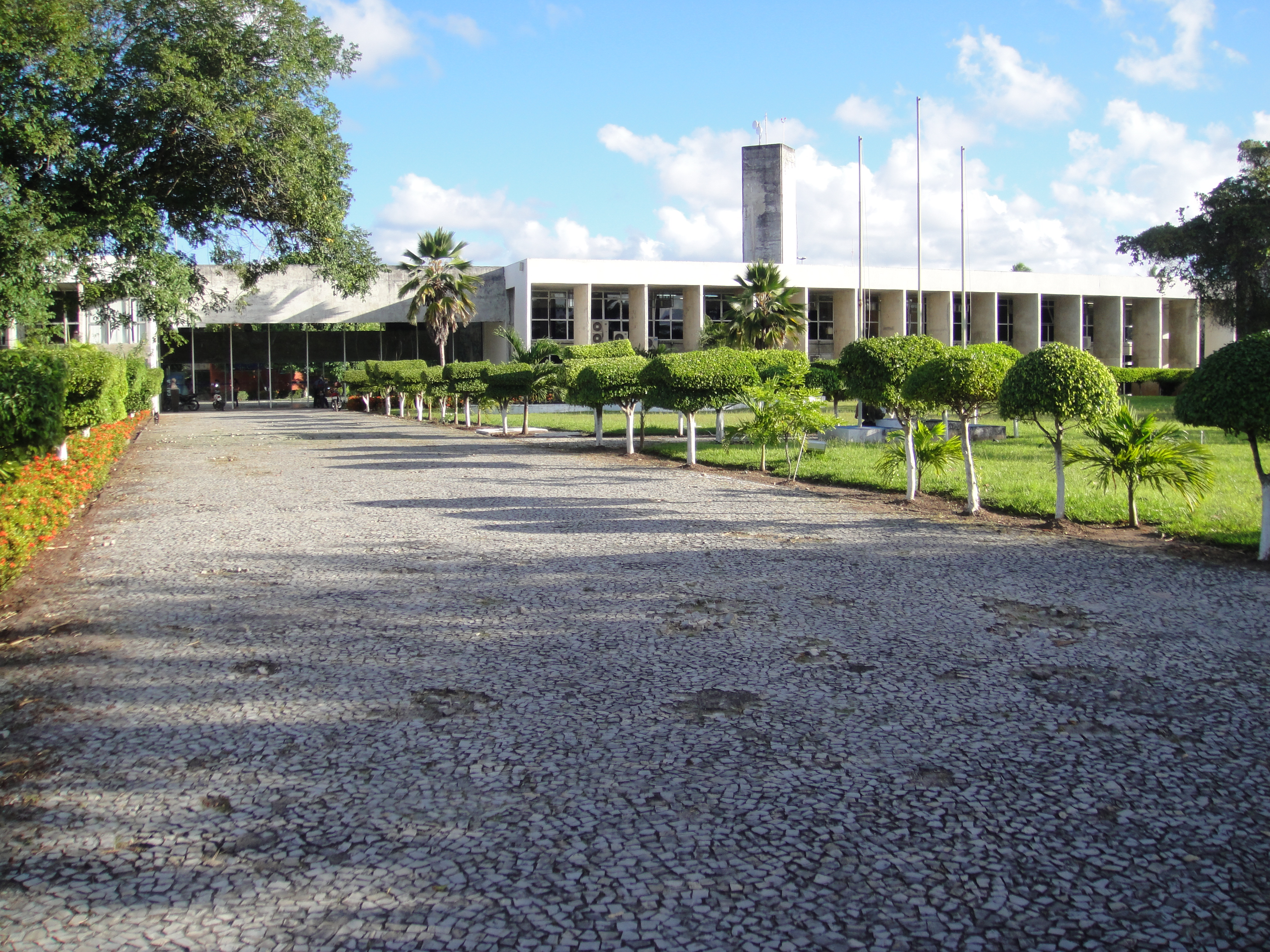 Facade of the building of the Rectory of Universidade Federal de Sergipe (UFS; in english: Federal University of Sergipe). UFS is a public university. View of the main entrance of the building. Campus São Cristóvão, state of Sergipe, Brazil.